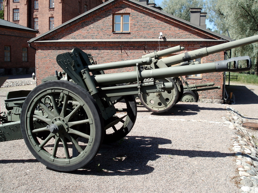 German 10.5 cm le.F.H.18M, accepted for service in 1935, displayed in Hämeenlinna Artillery Museum. This howitzer was one of the mainstays of German artillery during World War II.